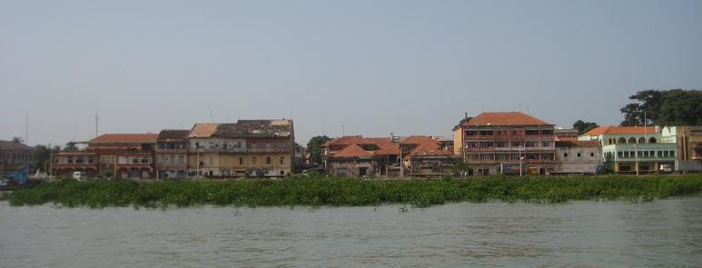 View of the harbour promenade and old city town of Bissau